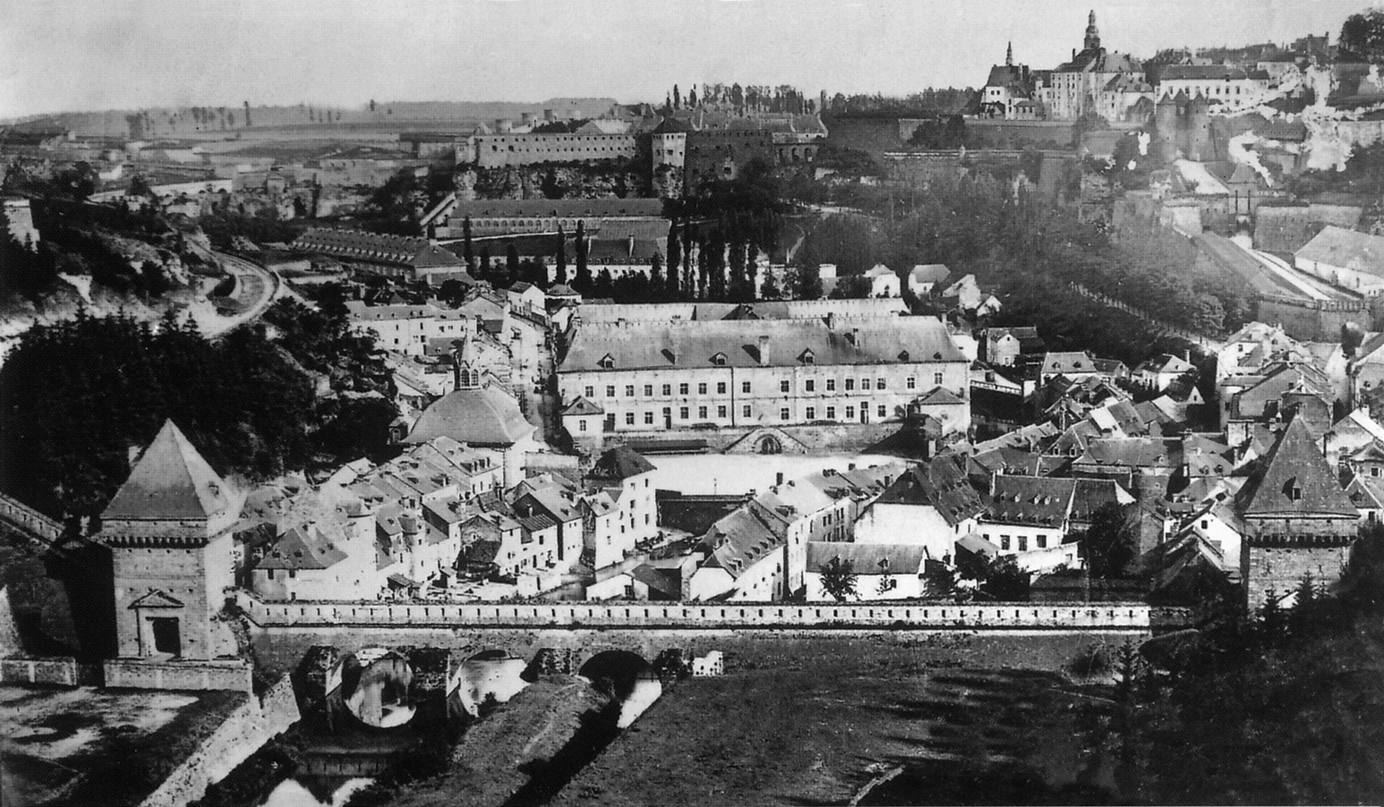 Luxembourg City: The quarter of Pfaffenthal in 1868, one year before the slighting of the fortress, by an unknown photographer. The original is stored by Photothèque de la Ville de Luxembourg.